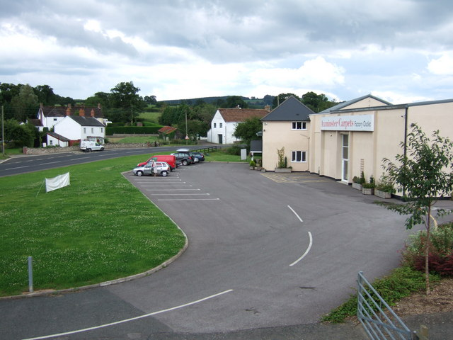 Axminster Carpets Factory Outlet Situated at Abbey Gate. The A358 to Musbury is on the left. Taken from the embankment of the A35, the Axminster by-pass.